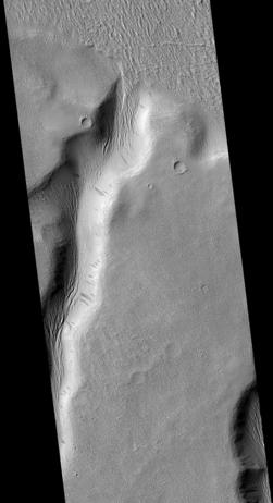 Tinia Valles, as seen by hirise. Location is 4.6 degrees south latitude and 211.1 degrees east longitude. Image was taken by the Mars Reconnaissance Orbiter's HiRISE. The HiRISE camera was built by Ball Aerospace and Technology Corporation and is operated by the University of Arizona. Image courtesy NASA/JPL/University of Arizona.